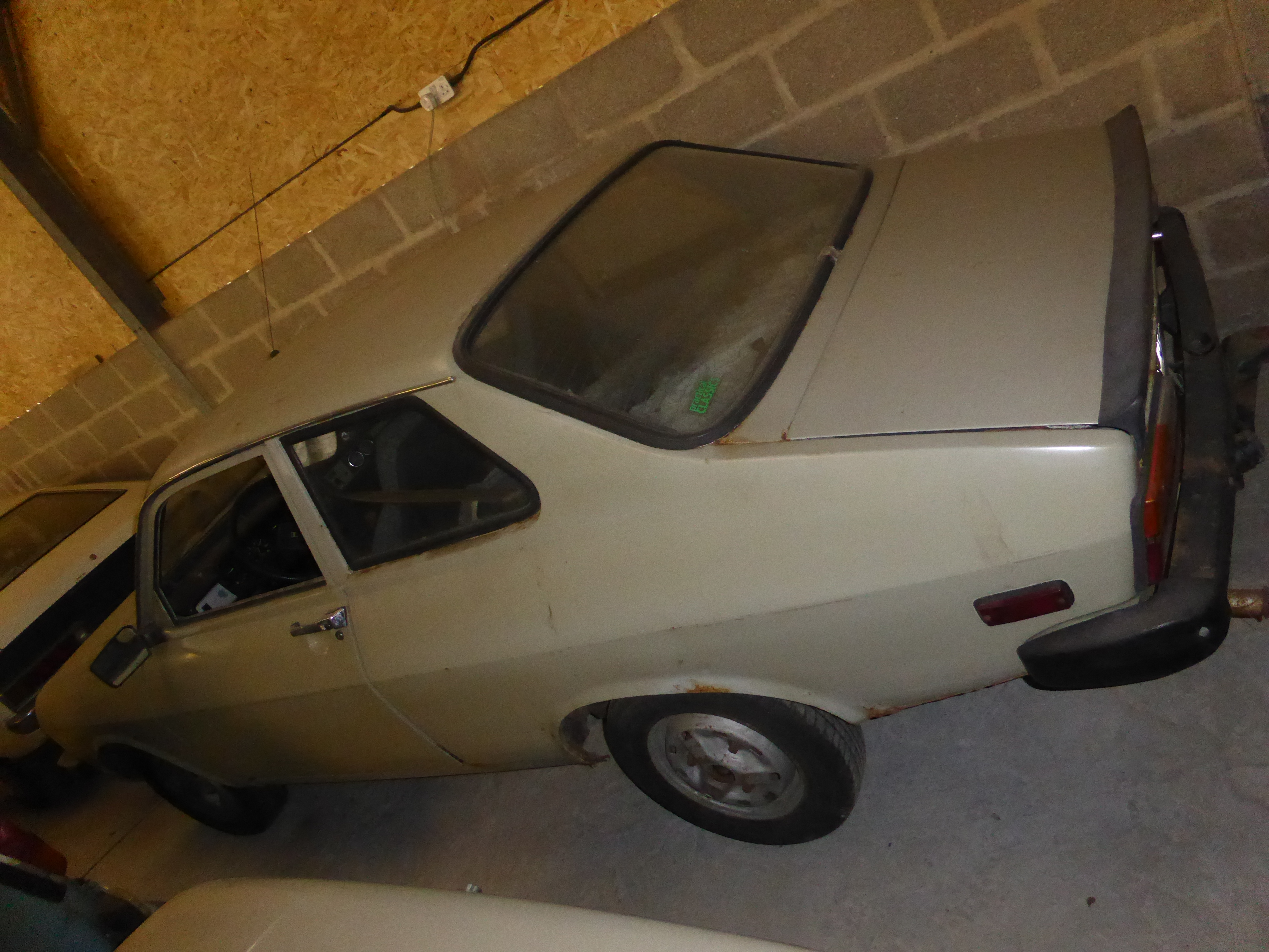 A lowline Renault 12 derivative from Romania. Part of a unique private collection.